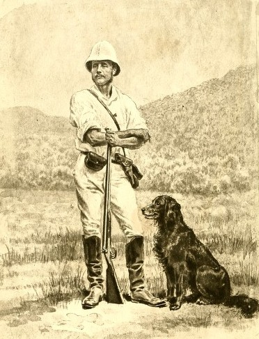 Portrait of Carl Lunholtz from 'Among Cannibals'